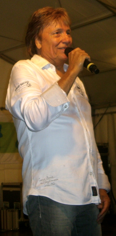 Andreas Holm sings the tenant Festival 2013 in Berlin-Marzahn